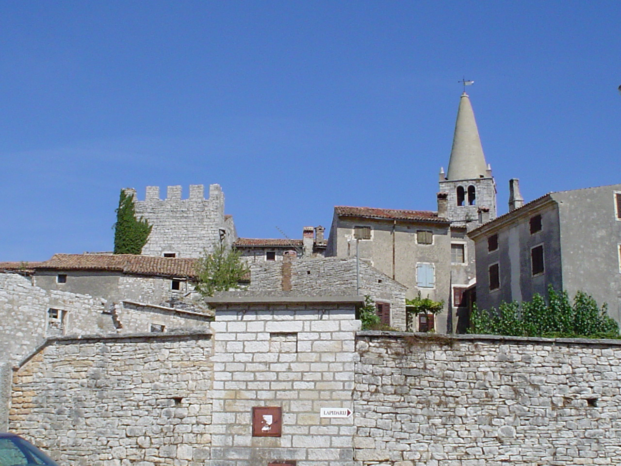 View of Bale (Croatia)